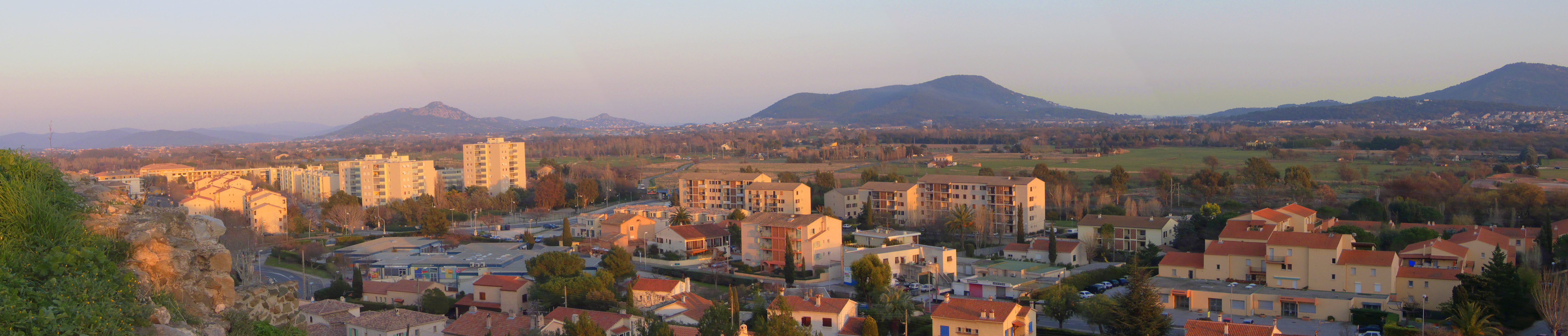 A view from the south of the La Garde city from a position beneath of the Chapel of La Garde. (Assembled panorama of 5 images which are available on my flickr profile).